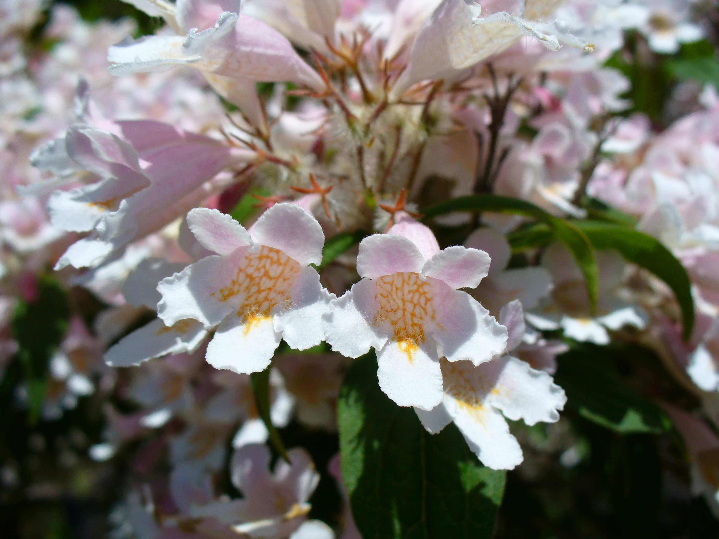 I am the originator of this photo. I hold the copyright. I release it to the public domain. This photo depicts Kolkwitzia amabilis flowers.